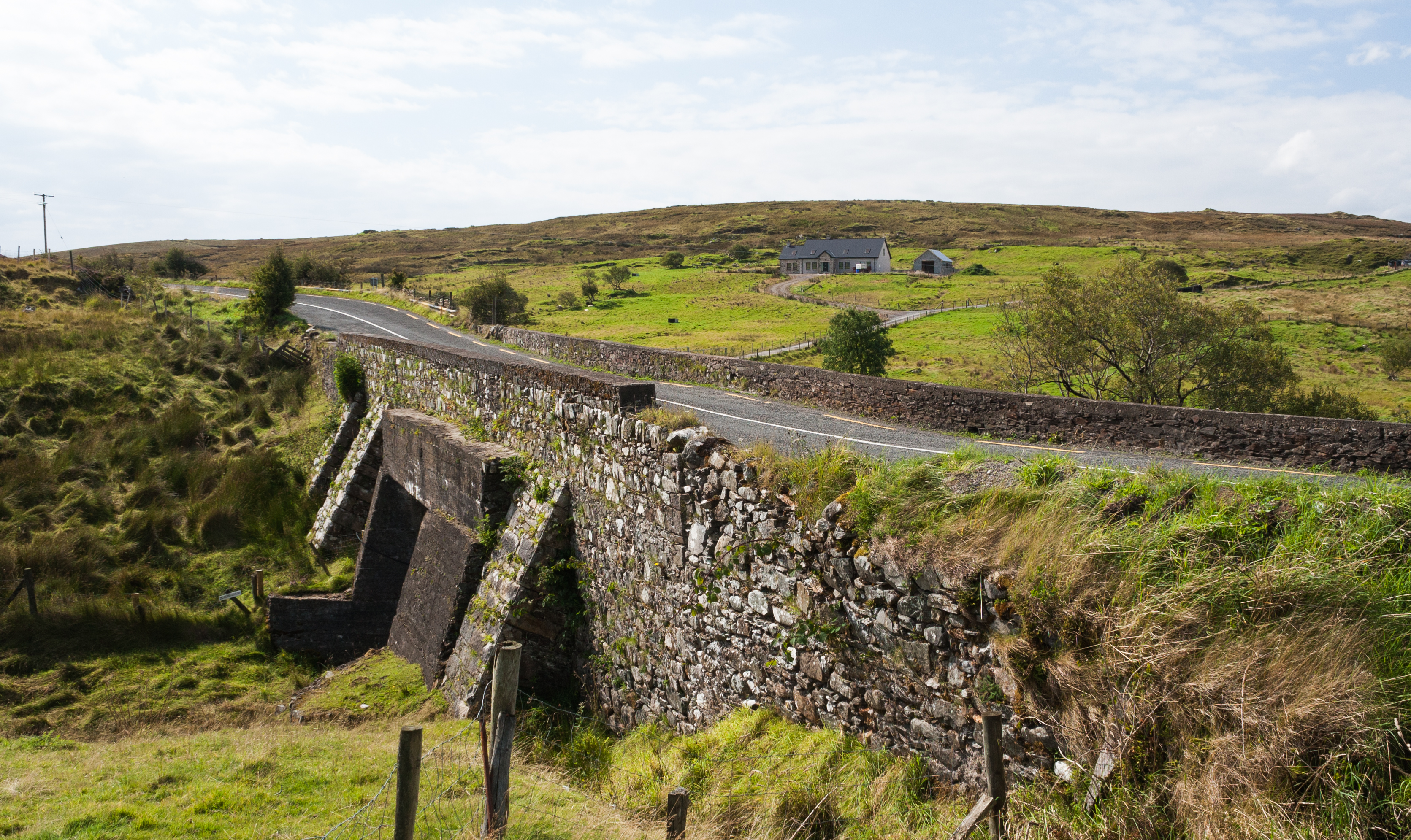 Bridge of the R262 in the townland of Tullynaglaggan over a tributary of the Owentocker River.